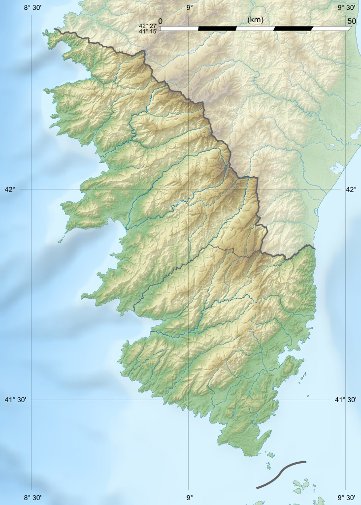 Blank physical map of the department of Corse-du-Sud, France, for geo-location purpose, with distinct boundaries for departments and arrondissements.